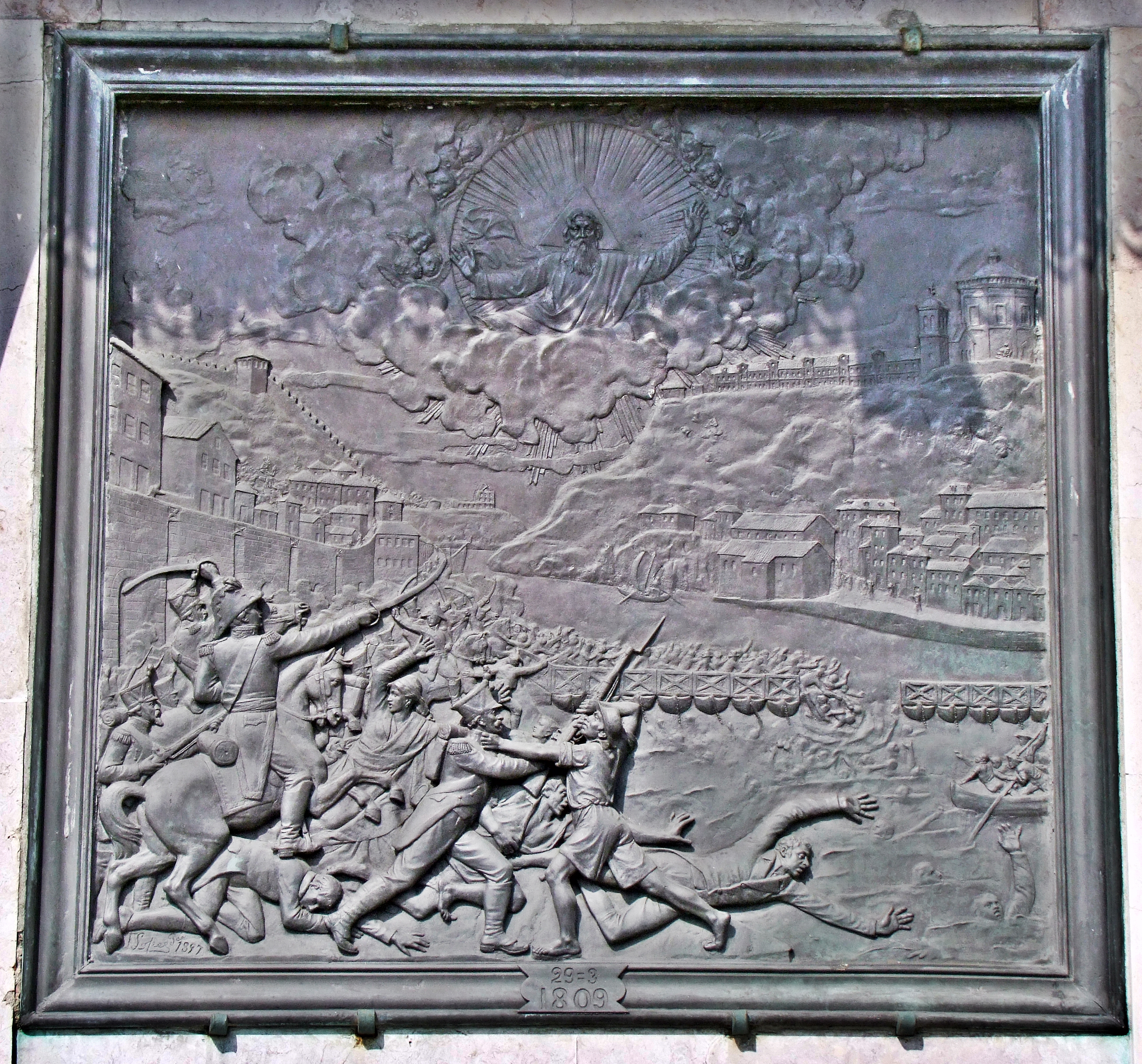 Desastre da ponte das barcas, on 29 March 1809, during the second napoleonic invasion of Portugal. In a attempt to escape the sword of the enemy, people of Porto tried to take refuge on the left bank of the Douro River, but the bridge collapsed under their weight. The tragic and brutal event went down in history as "Desastre da ponte das barcas". To this day, everyday, candles are lit up at the foot of this stele, near "Ponte Luis I°". Stele cast in 1897.